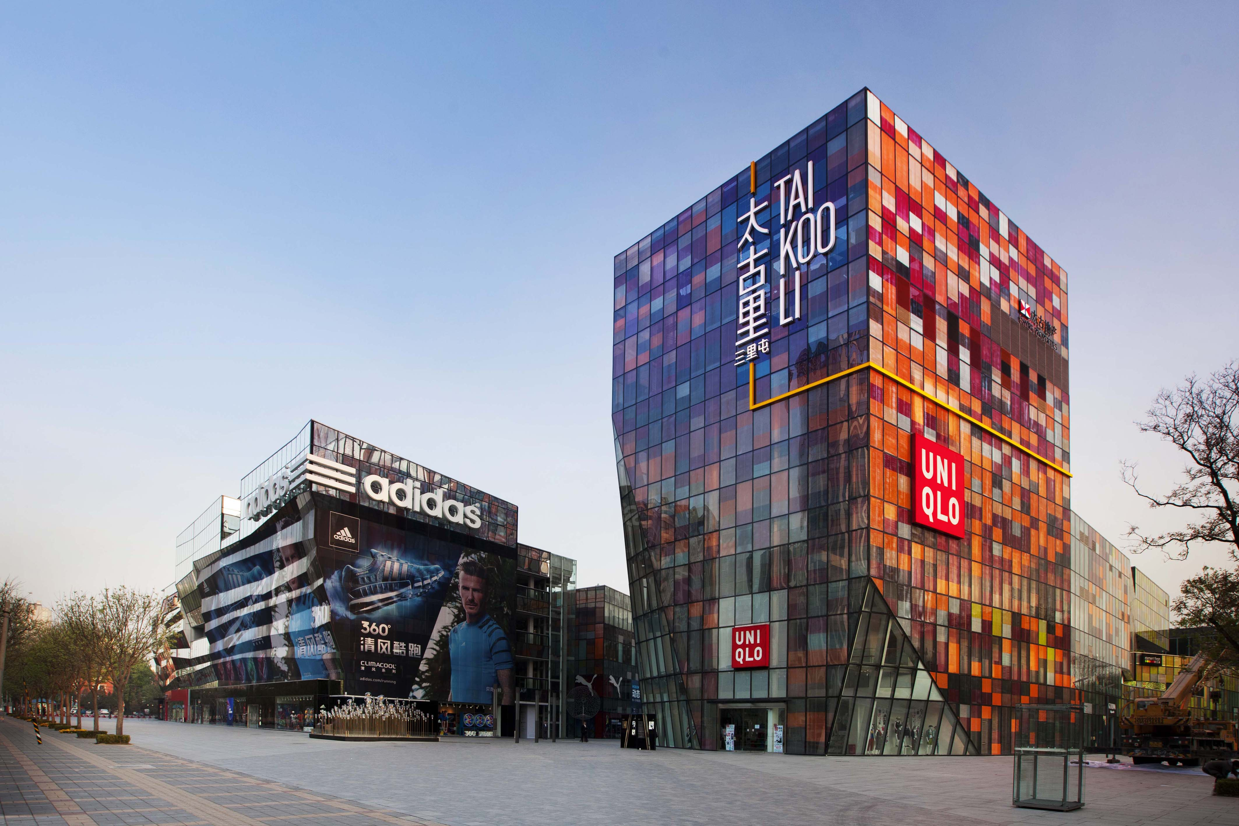 Sanlitun Taikoo Li South